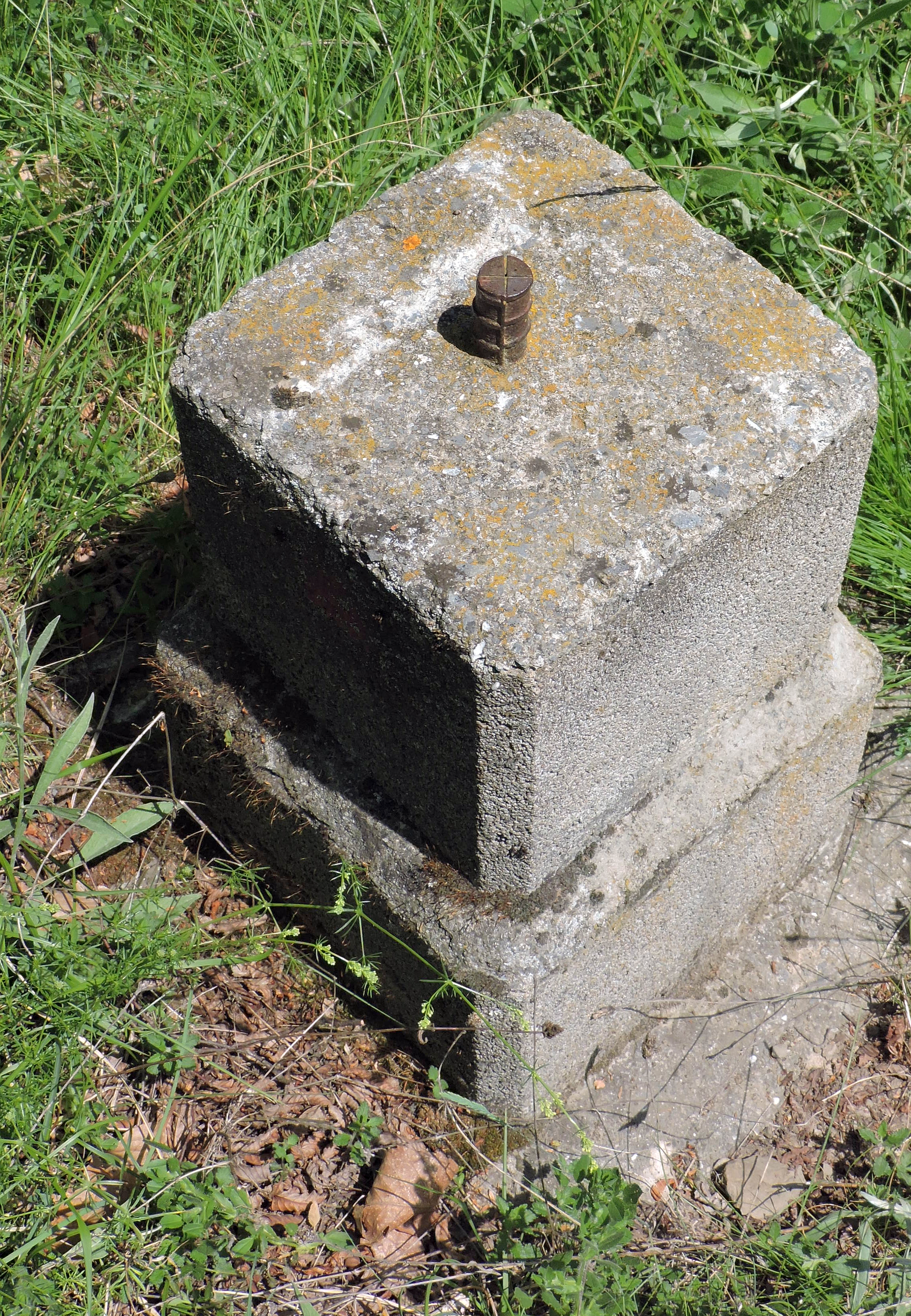 Monte Mucchio di Pietre (Liguria, Italy) summit pillar